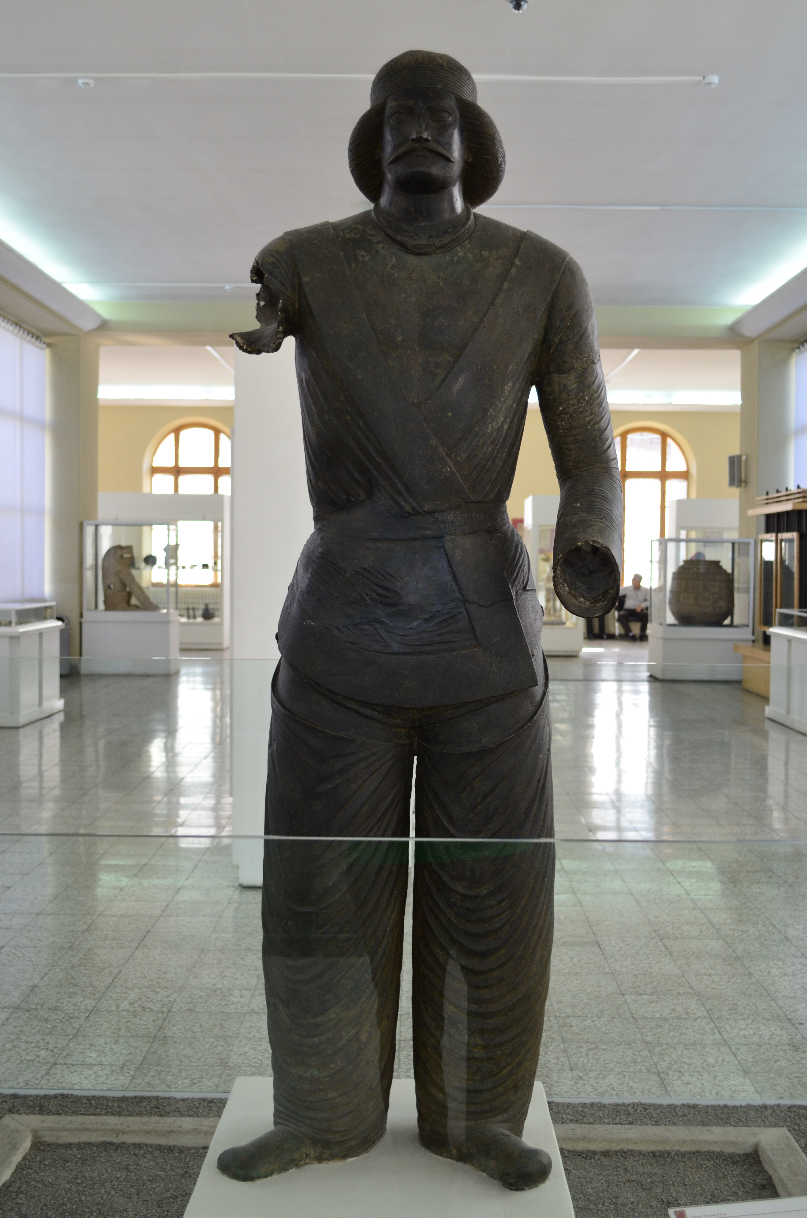 National Museum of Iran